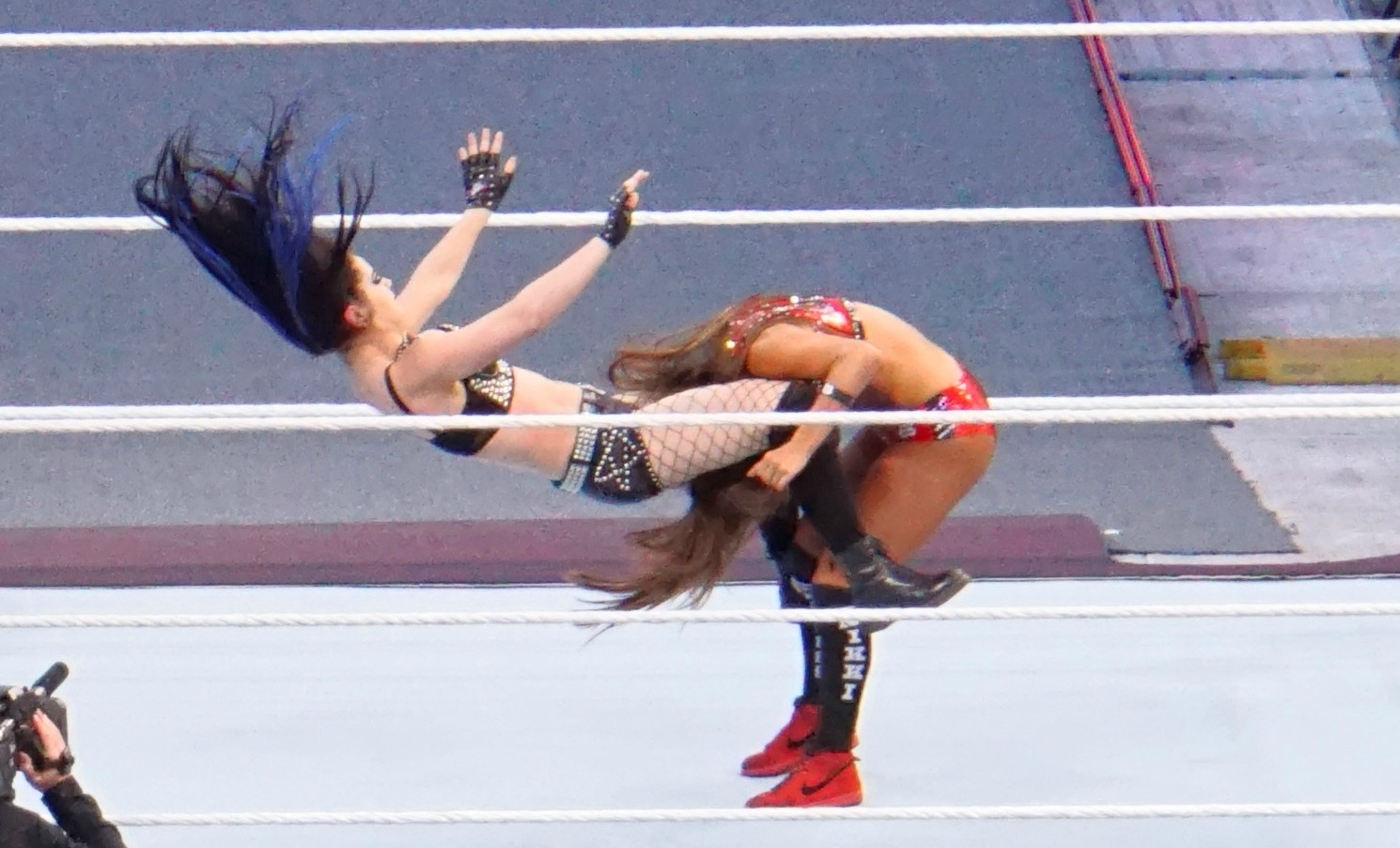 Nikki Bella applying the Alabama Slam on Page.